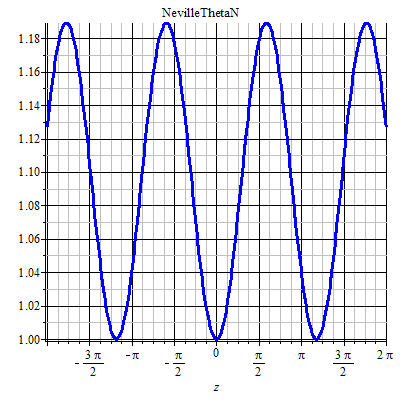 Neville ThetaD function Maple plot